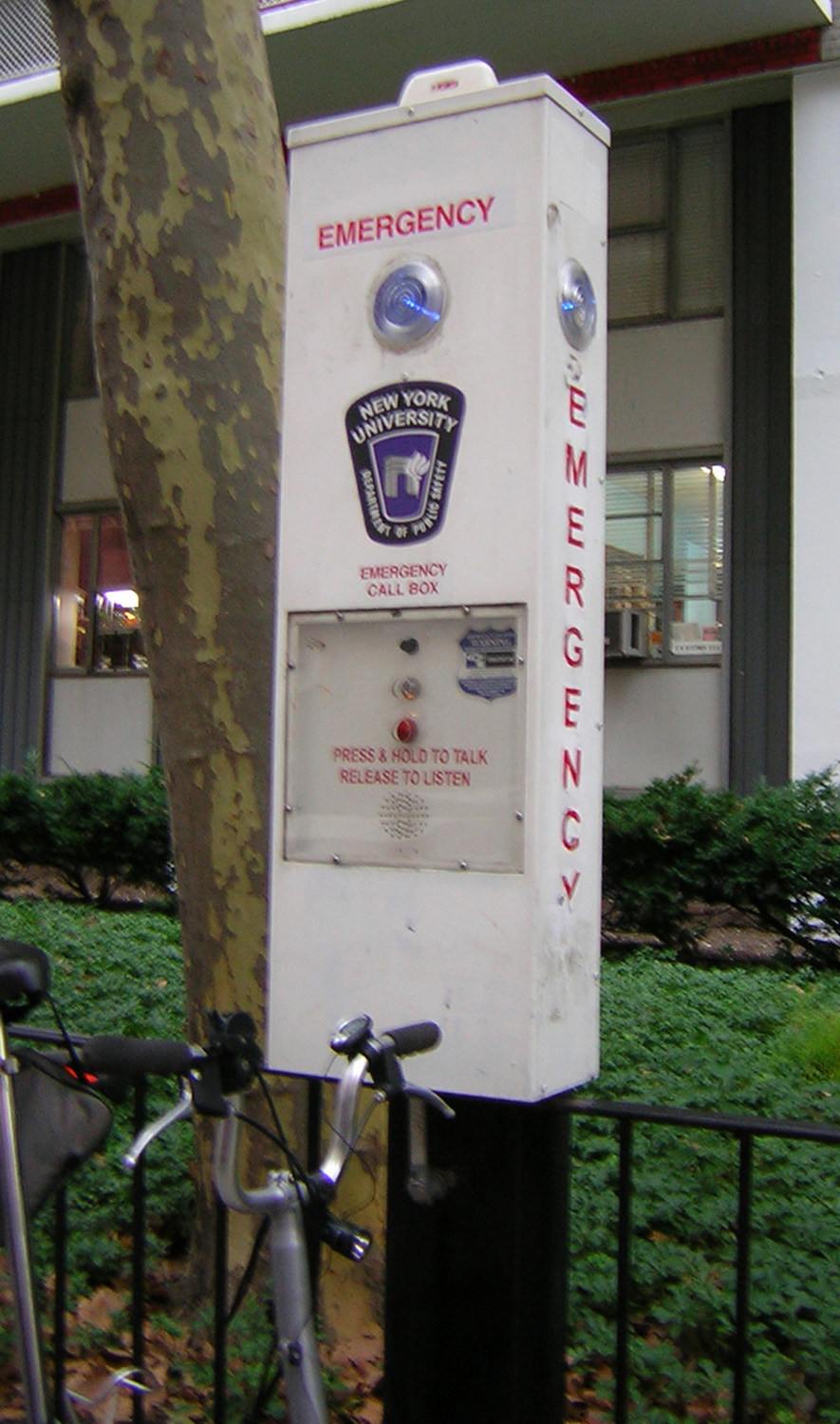 New York University Call Box in front of 2 Washington Square Village on the south side of Third Street, across from the Courant Institute for Applied Mathematics, on a cloudy day.